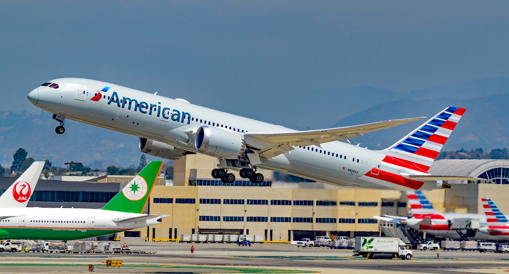 Delivered June 2017 Los Angeles International Airport (IATA: LAX, ICAO: KLAX, FAA LID: LAX) Photo: TDelCoro September 2, 2017